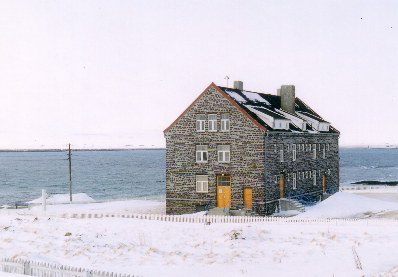 Vardøhus Museum at Lushaugen in Vardø, Finnmark, North Norway.